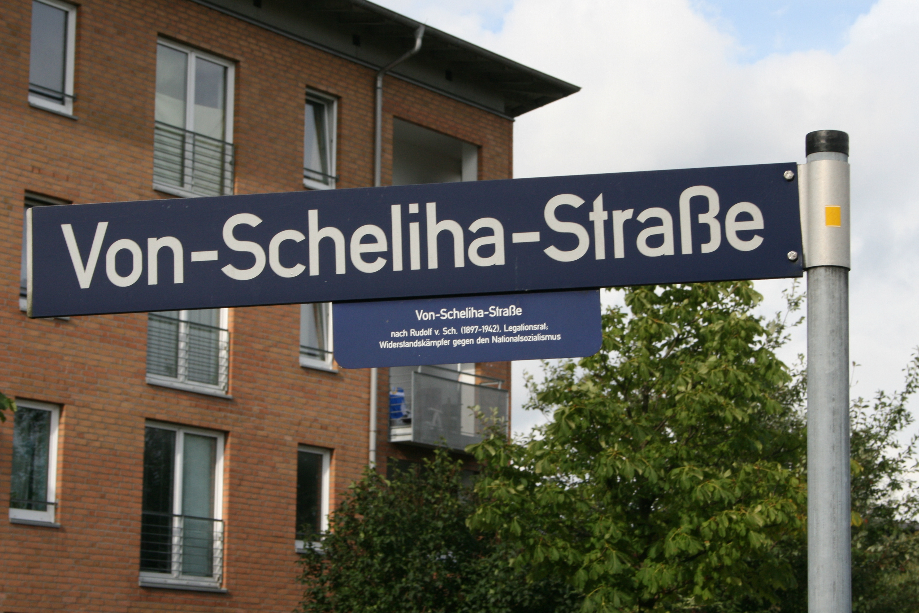 Road sign of the Von-Schliha-Straße, named after Rudolf von Scheliha, member of the resistance against Nazism